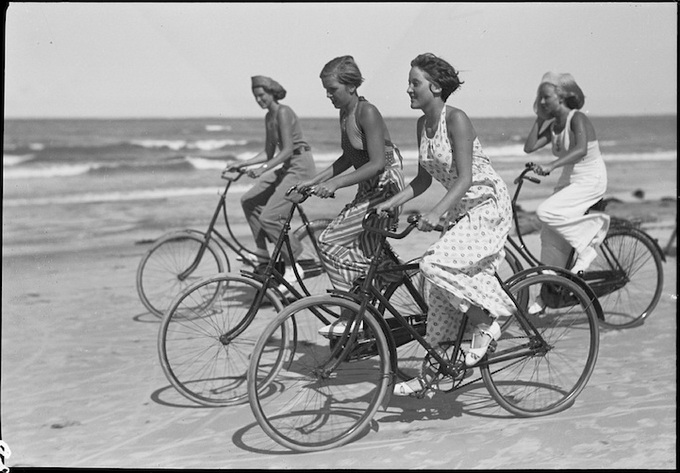 Youth on bicycles on the beach